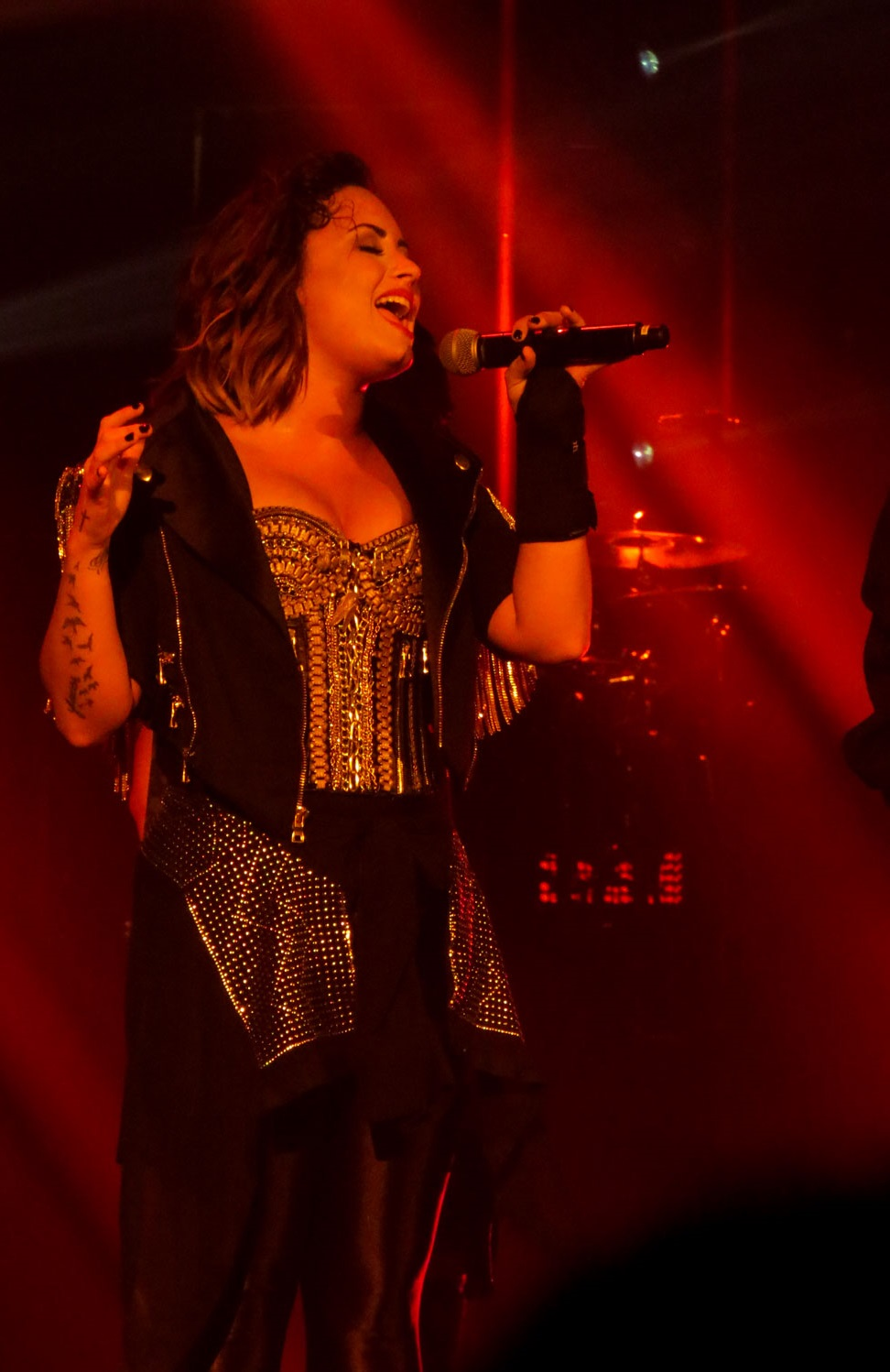 Demi Lovato performs at the Pepsi Center in Denver, CO on September 25, 2014.